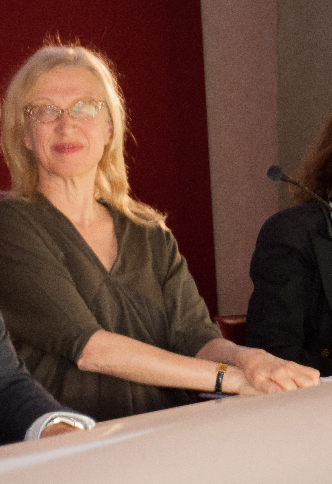 Valerie Steele at Europeana Fashion